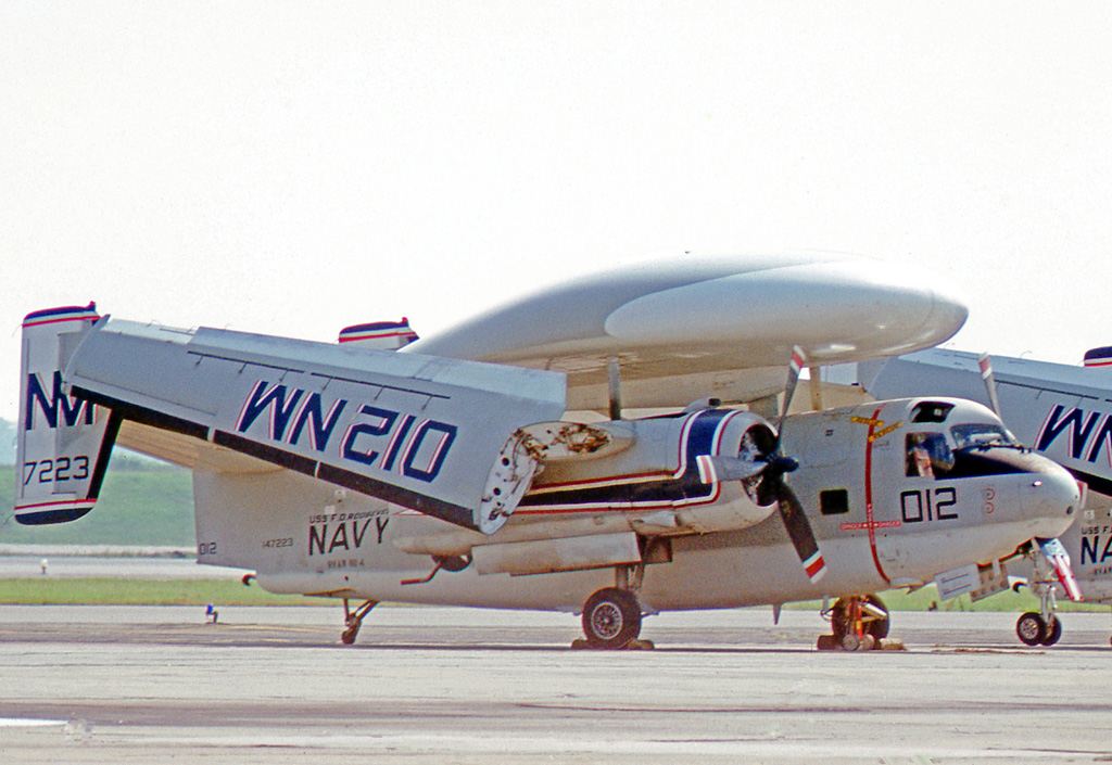 A U.S. Navy Grumman E-1B Tracer (BuNo 147223) of RVAW-110 Det.4 at Naval Air Station Jacksonville, Florida (USA), in July 1976. RVAW-110 Det. 4 was assigned to Carrier Air Wing 19 (CVW-19) aboard the aircraft carrier USS Franklin D. Roosevelt (CV-42) for a deployment to the Mediterranean Sea from 4 October 1976 to 21 April 1977. This was the last deployment of Franklin D. Roosevelt, of CVW-19, and the last operational deployment of the E-1 Tracer.